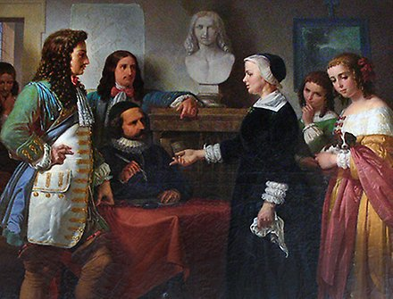 Margareta Huitfeldt is making her last will and testament and donation of properties.